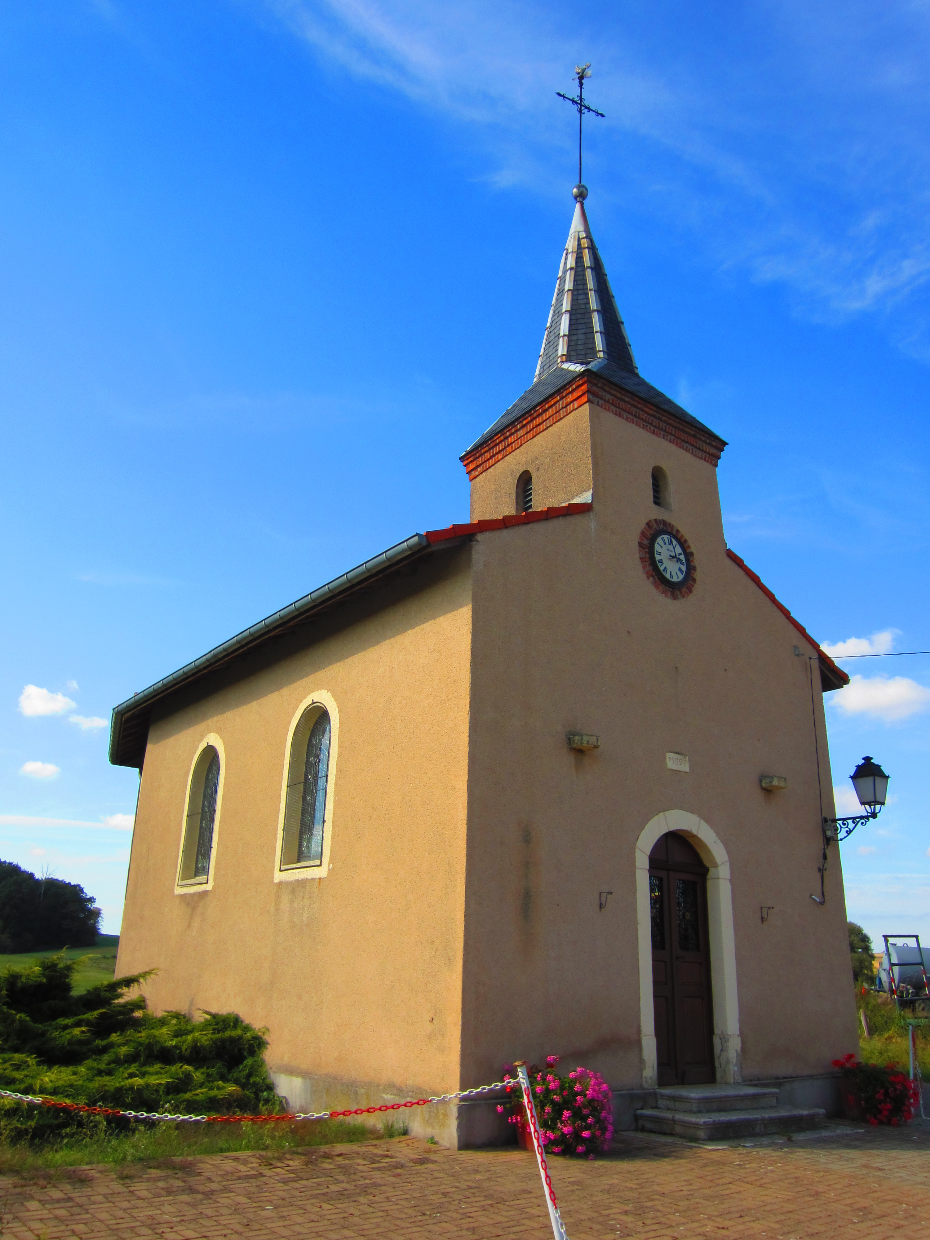 Guirlange chapel